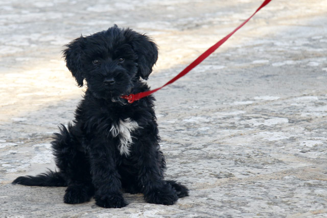 Photo of the Portuguese Water Dog Lindo da Estrela do Mar (10 weeks old on the photo), owner Lutz Mischa Heitmüller, kennel